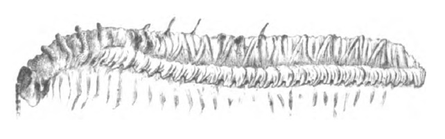 Drawing of Euphoberia spinulosa fossil from Plate 36